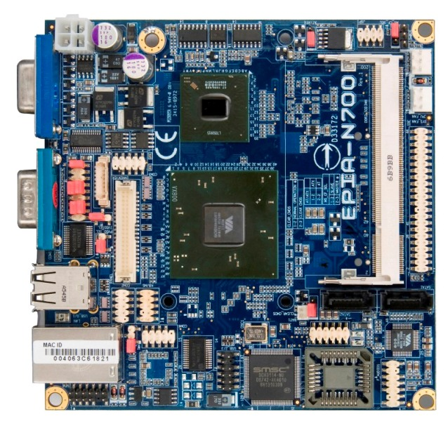 Here is an image of the VIA EPIA N700 nano-ITX board.